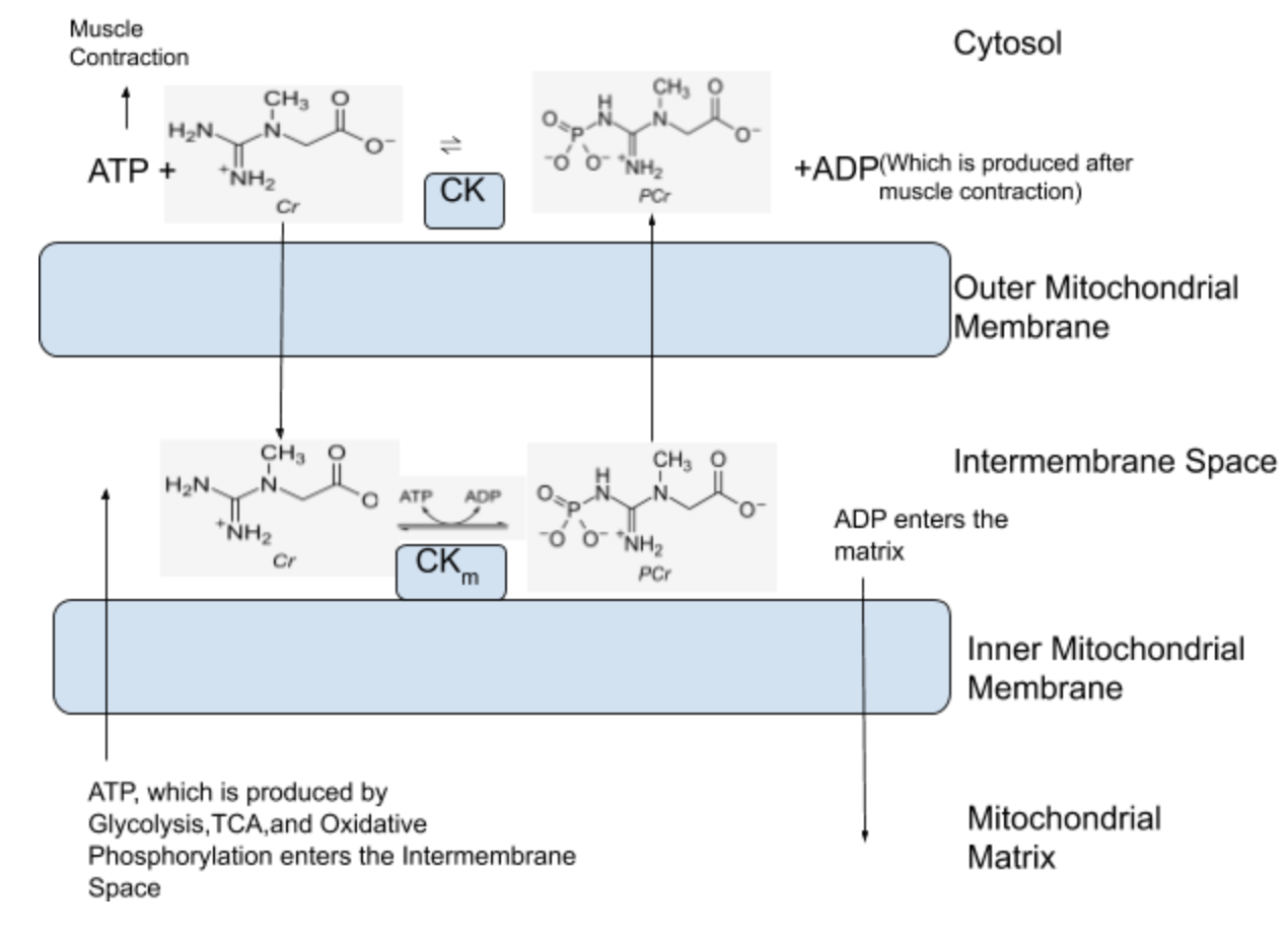 Diagram of the Creatine Phosphate Shuttle process which occurs in muscle cells